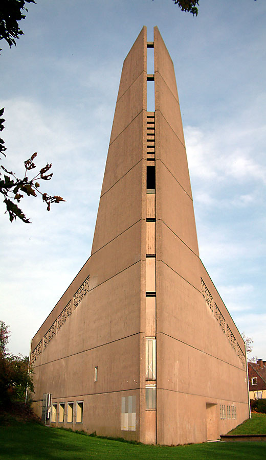 Church Christuskirche, Giersberg, Siegen, Germany